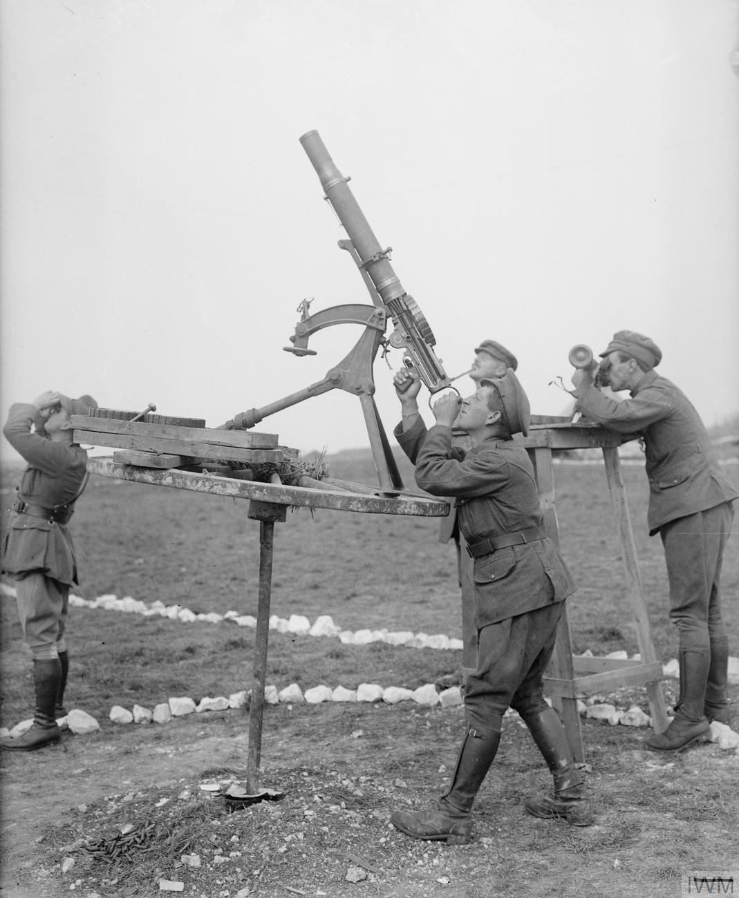 The Battle of the Somme, July-november 1916 Lewis gun on Vickers Tripod on an improvised anti-aircraft mounting (two wheels and axle: one wheel buried and the other revolving with the gun). On the right of the image a man is using a rangefinder on an improvised stand. Photograph taken near Albert.